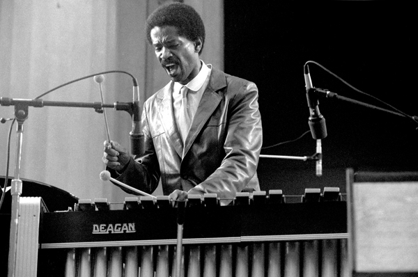 Vibraphonist Bobby Hutcherson, performing at the Berkeley (CA) Jazz Festival in 1982. Photo by Brian McMillen /